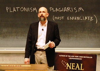 U.S. novelist Neal Stephenson discussing Anathem at MIT.